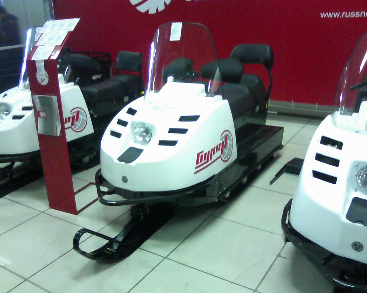 Snowmobiles in Russia